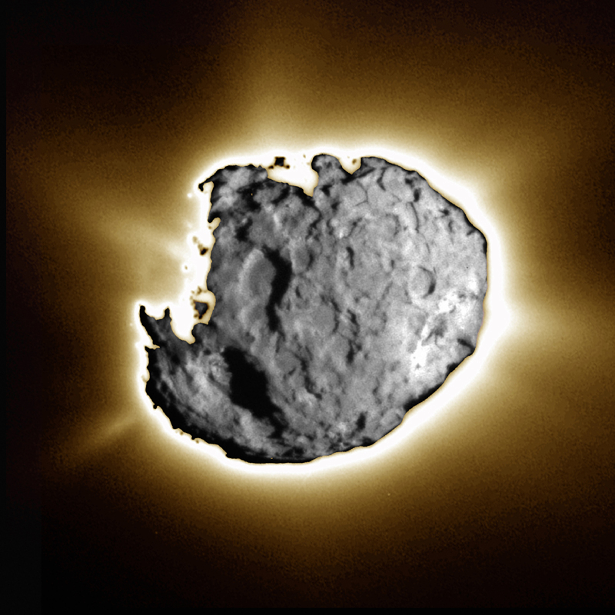 NASA/JPL enhanced image of Comet 81P/Wild